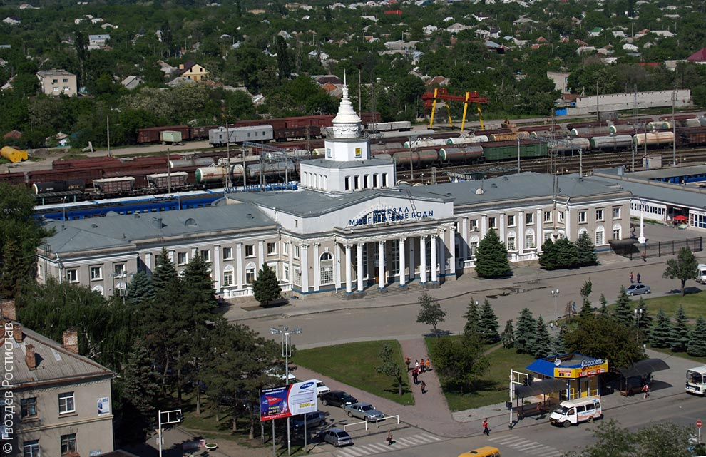 Вокзал города Минеральных Вод